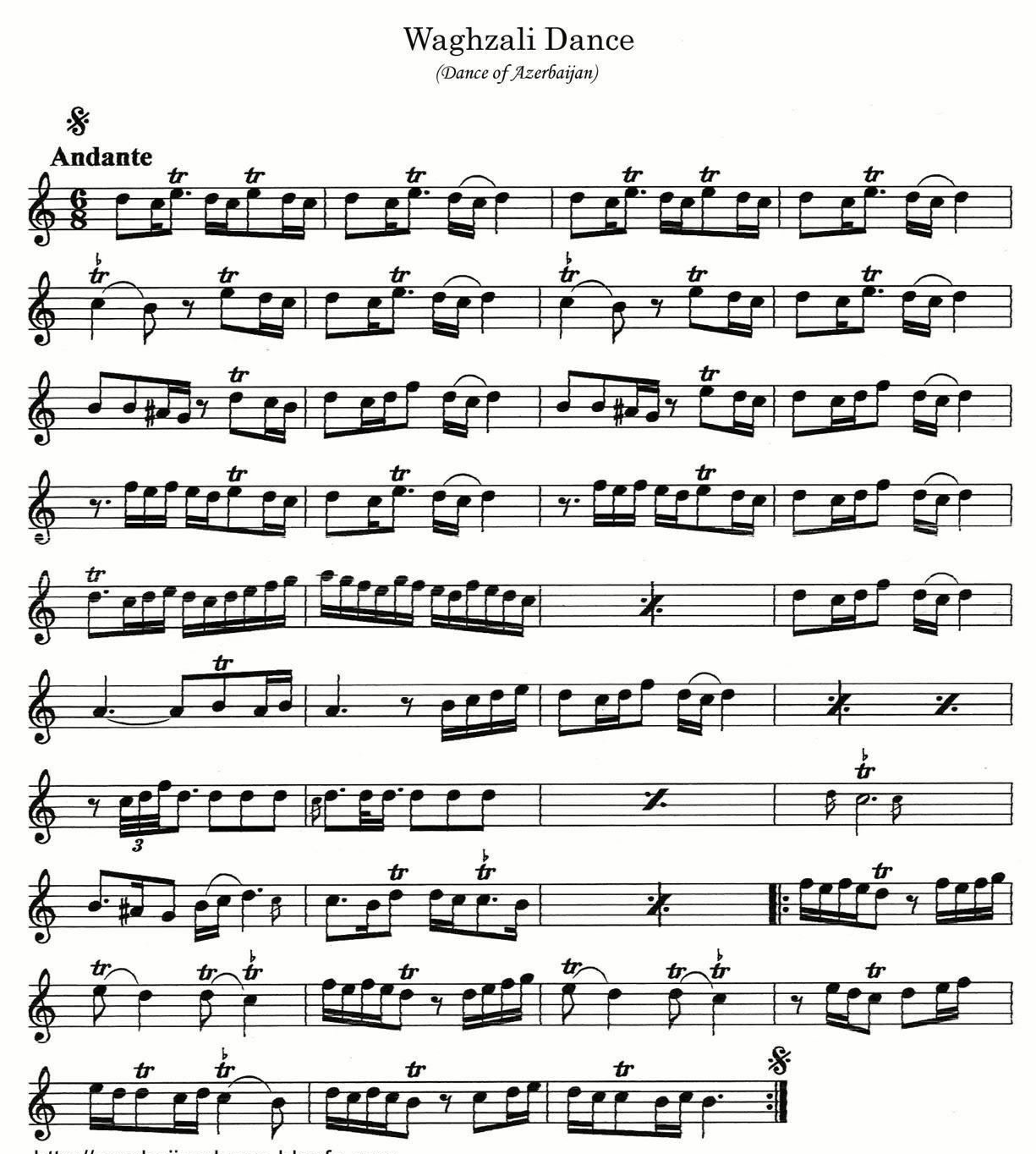 Azerbaijan national folk dance Wagzali